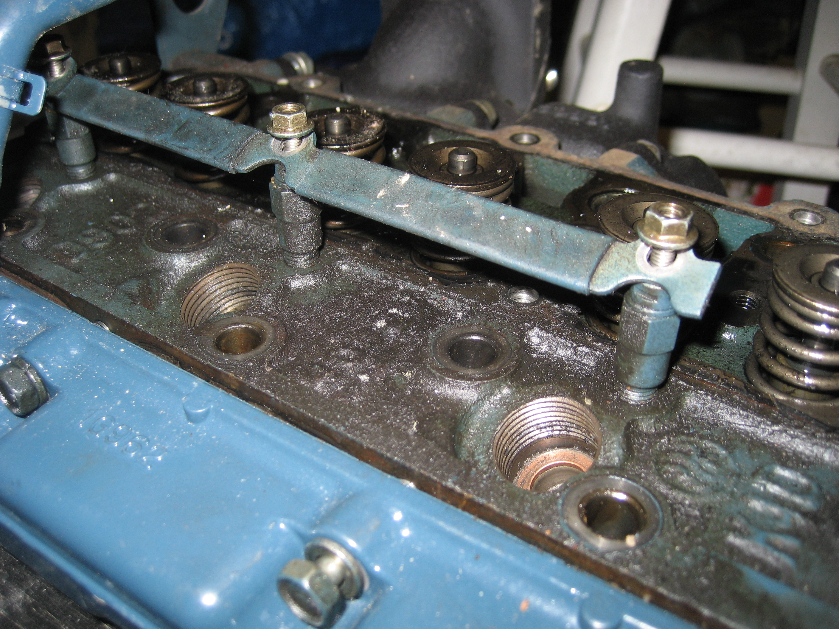 Glow plugs of a 3 cylinder Kubota IDI diesel engine.